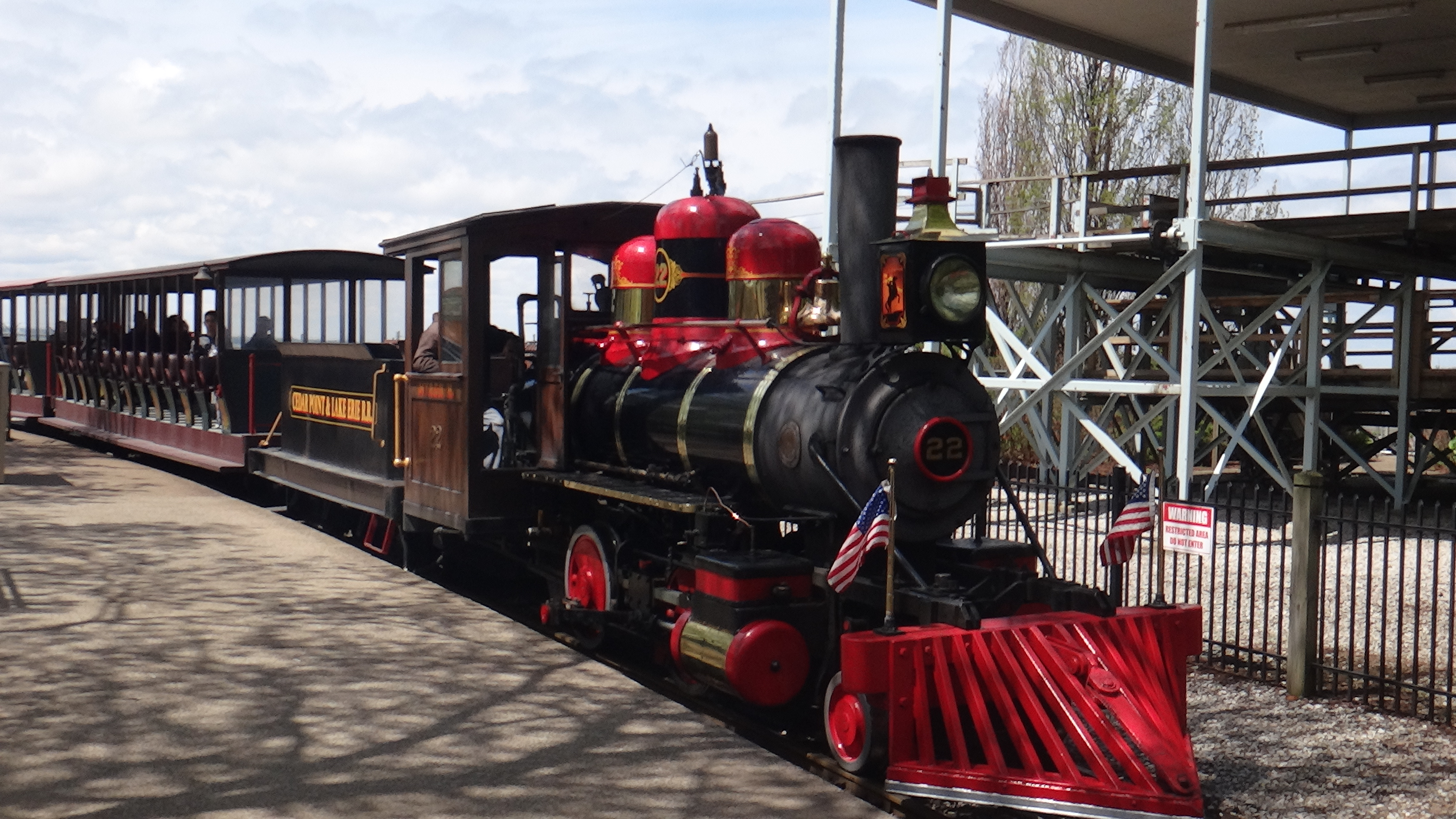 Myron H. pulls train into the Frontier Town Station.